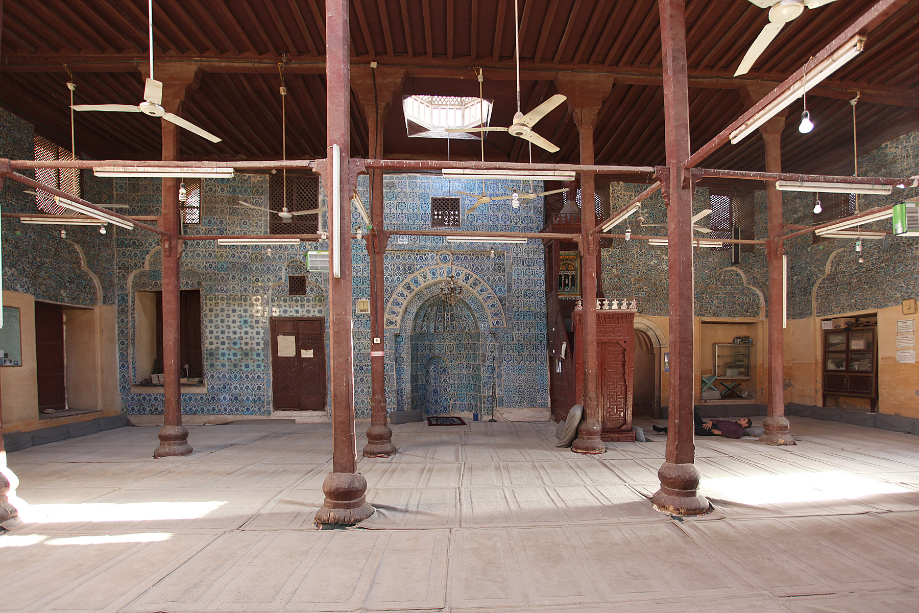 Inside the el-Sini mosque in Girga